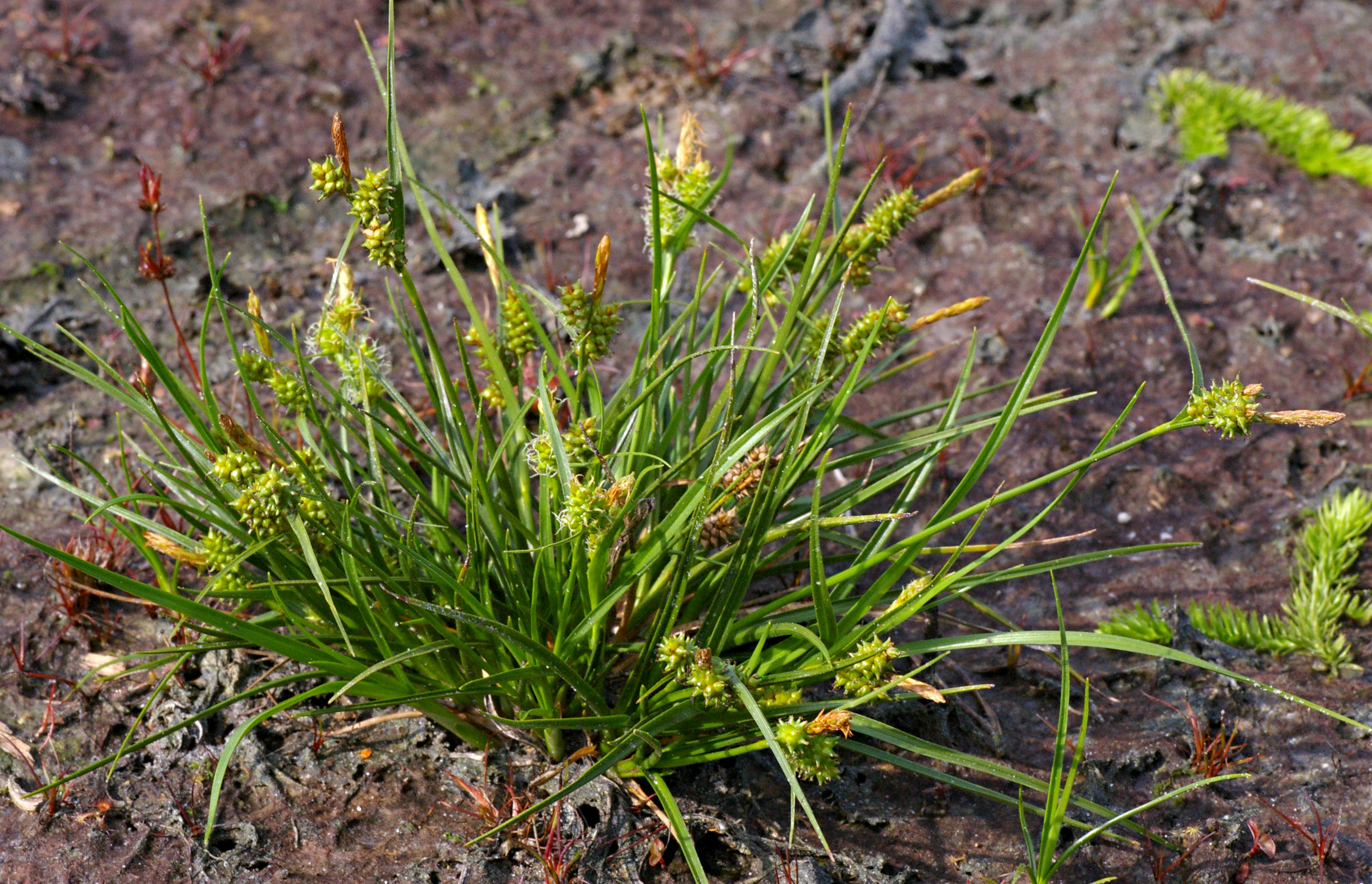 Single plant of Carex viridula.